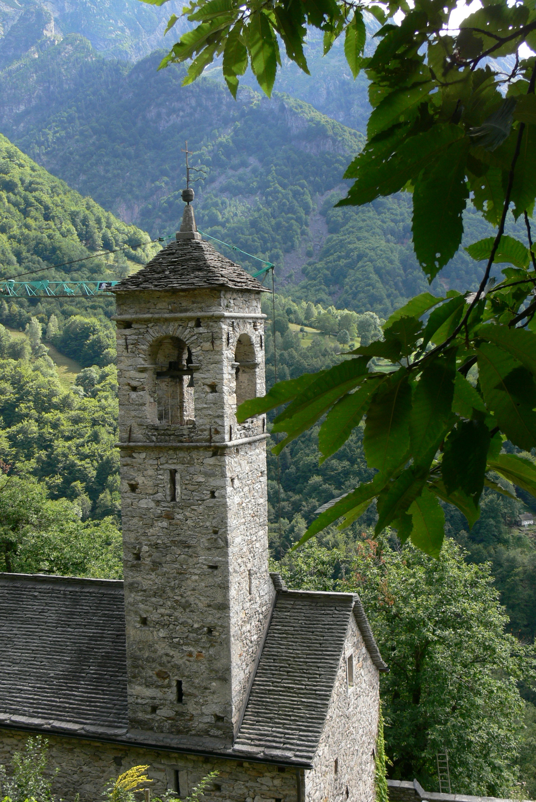 Terravecchia ( Rasa / Locarno ). Our Lady of Snow church: Church tower ( 15th century ).